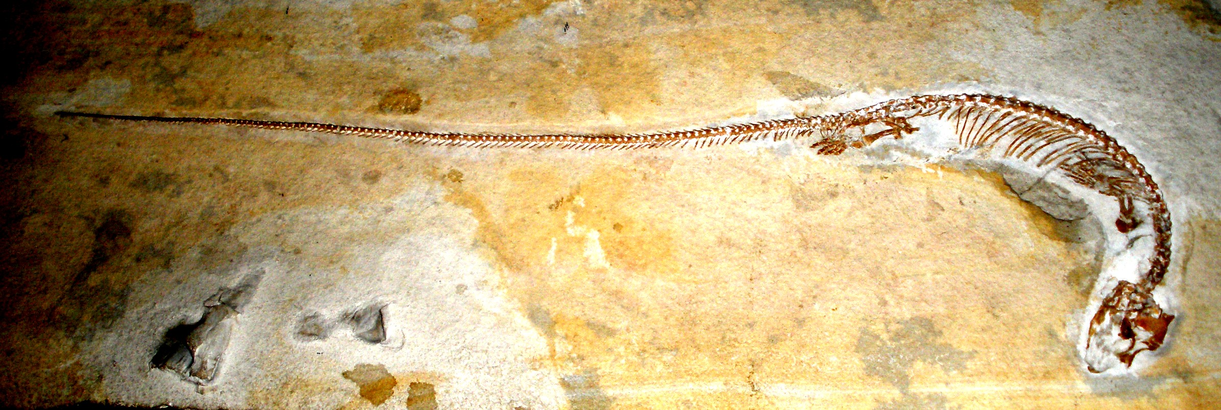 Fossil of Aphanizocnemus libanensis, an extinct reptile Took the photo at Museo di Storia Naturale, Milano